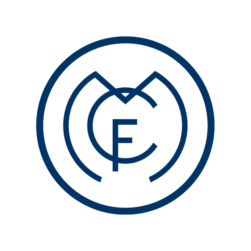 Real Madrid fourth crest